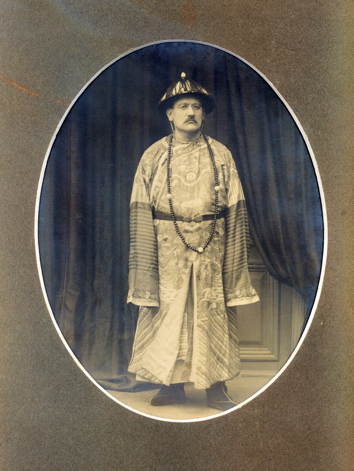 Erland Sihvonen in Chinese Mandarin dress, in an exhibition in 1911